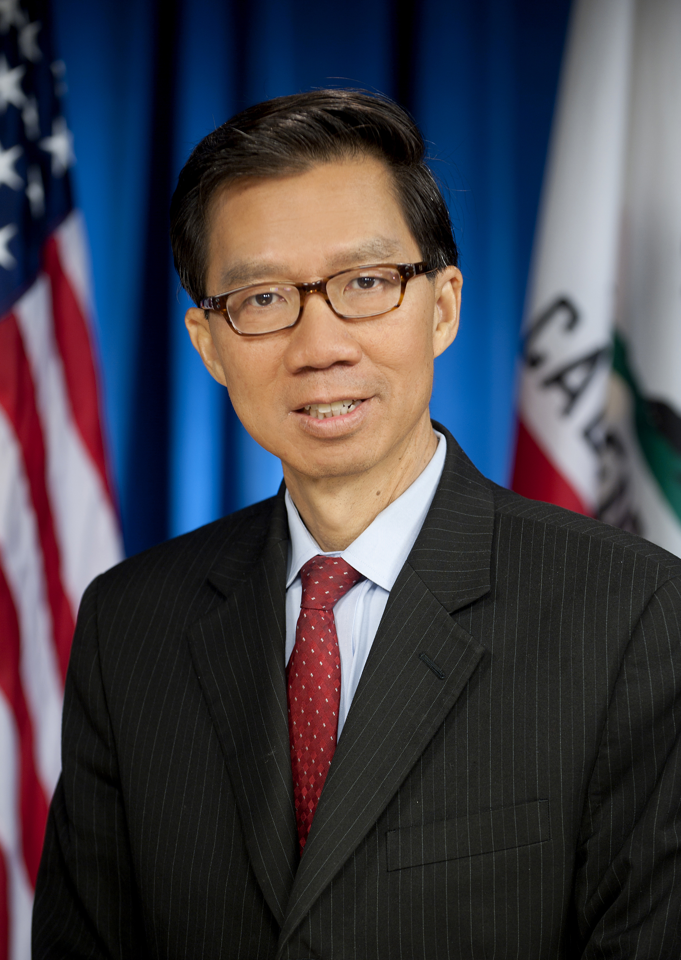 Assemblymember Ed Chau